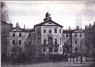 The Book of Boston: Fifty Years' Recollections of the New England Metropolis By Edwin Monroe Bacon Published by Book of Boston Co., 1916 page 48